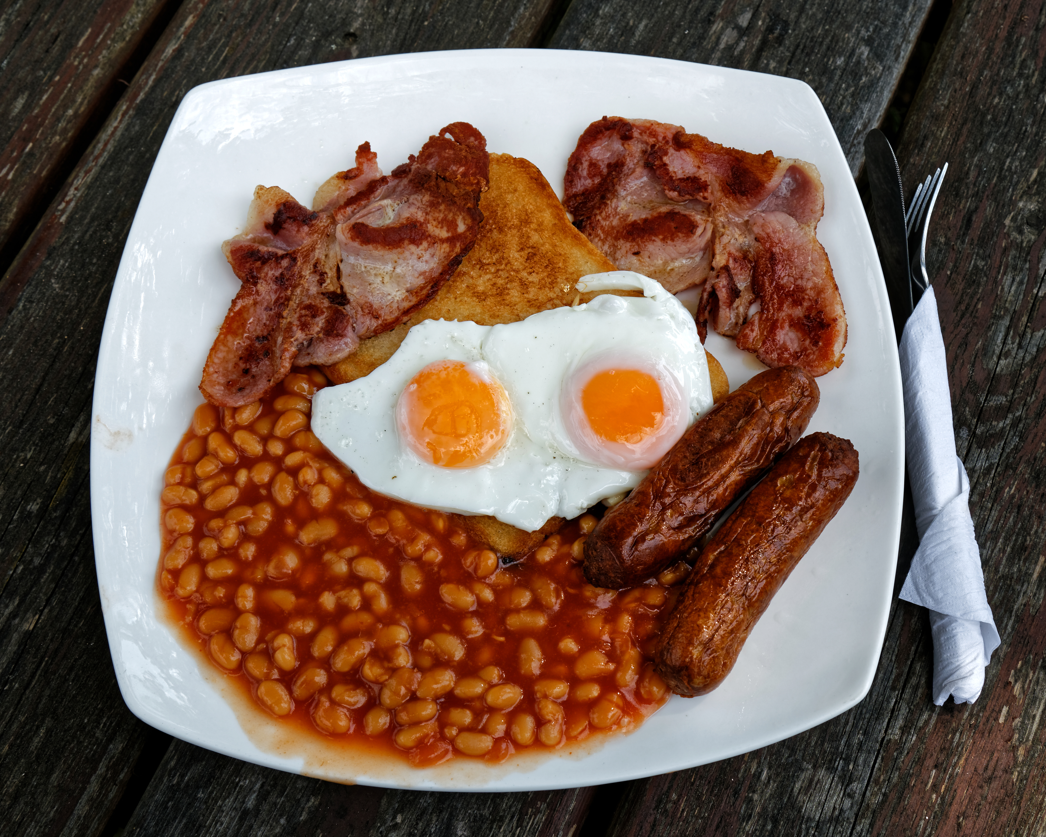 English breakfast lunch of double egg, double sausage, bacon, beans and slice of fried bread at the Chalet Cafe on the A281 Henfield Road in the Cowfold civil parish of West Sussex, England.Camera: Canon EOS 6D with Canon EF 24-105mm F4L IS USM lens.Software: RAW file lens-corrected, optimized and converted with DxO OpticsPro 11 Elite, and further optimized with Adobe Photoshop CS2.